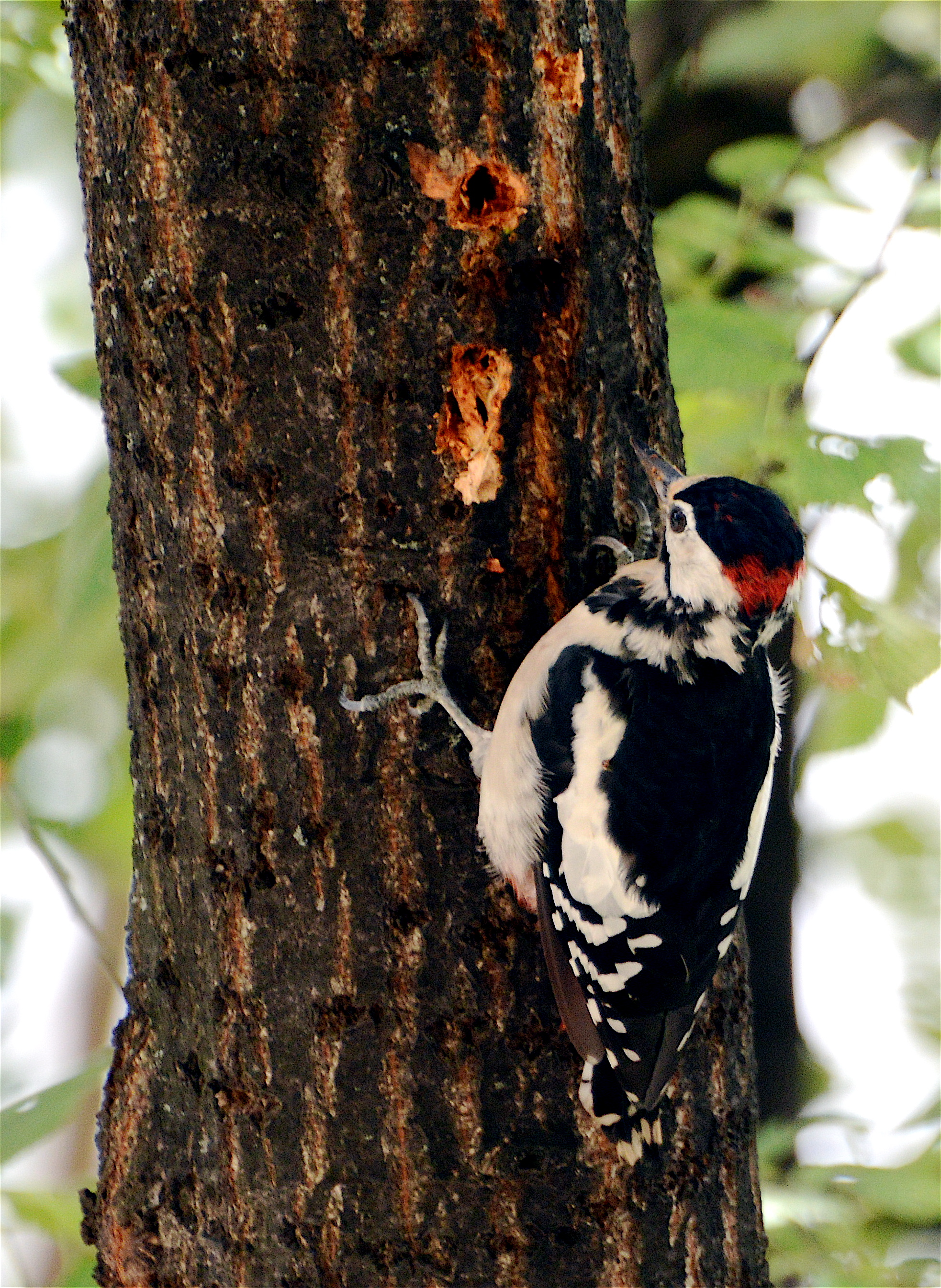 Great Spotted Woodpecker (Dendrocopos major) .